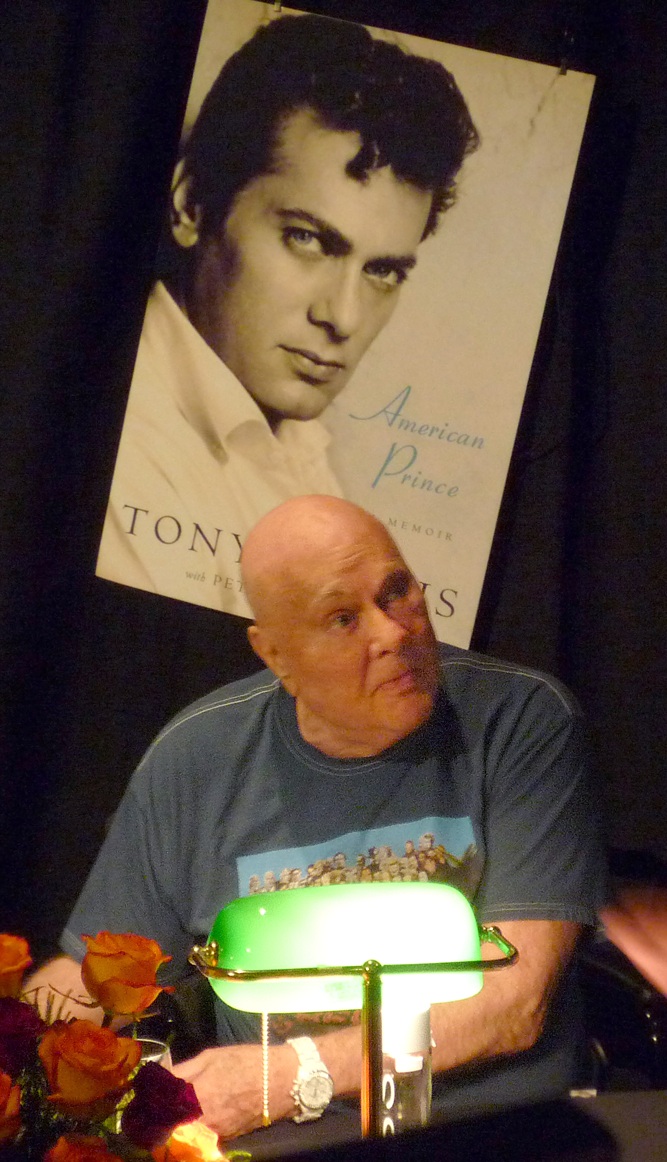 Actor Tony Curtis doing a book signing of his memoir, American Prince, at the Aurora Lounge in the Luxor Las Vegas. On his T-shirt is the Sergeant Pepper's Lonely Hearts Club Band LP cover, including a portrait of himself.